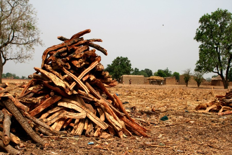 A pile of chopped fuelwood in Mali